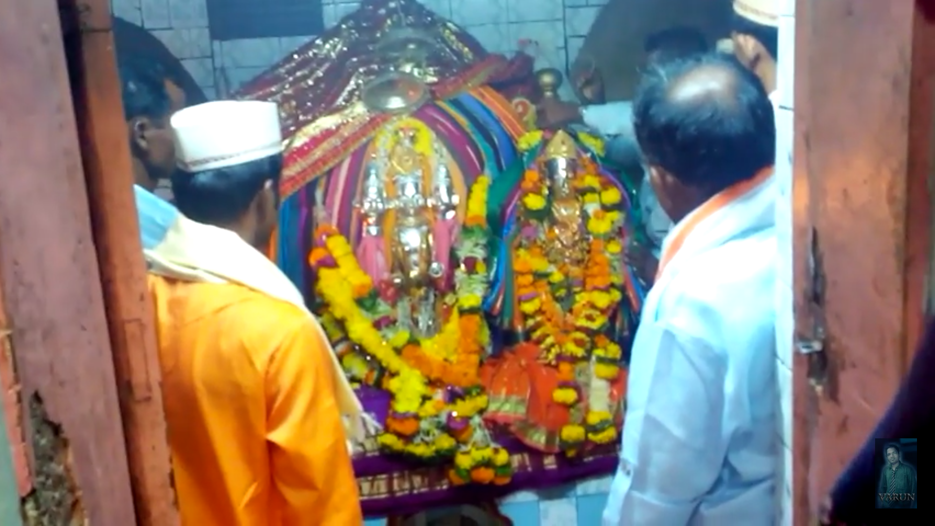 Jatra